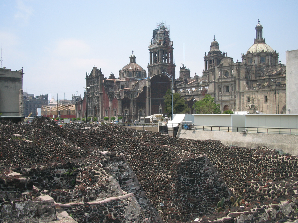 The Templo Mayor and the Metropolitan Cathedral of Mexico City.